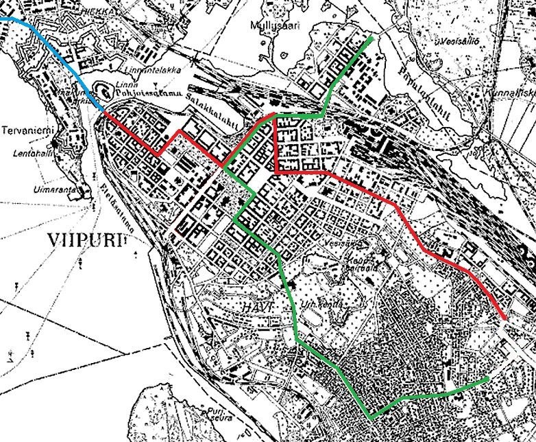 Vyborg tram route map in the 1930s. Line 1 - red / Line 2 - green / Line 3 - blue